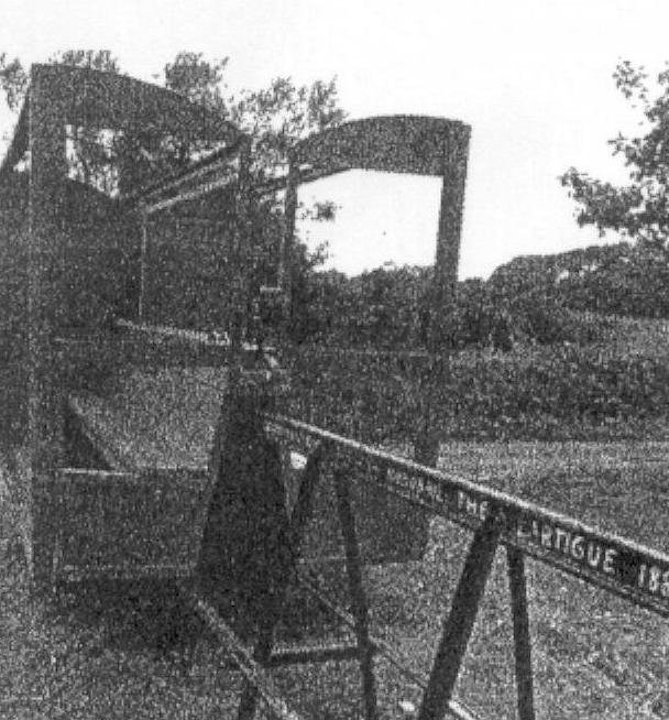 Carriage from Lartigue Monorail, rescued by Michael Berry, showing the seating system.